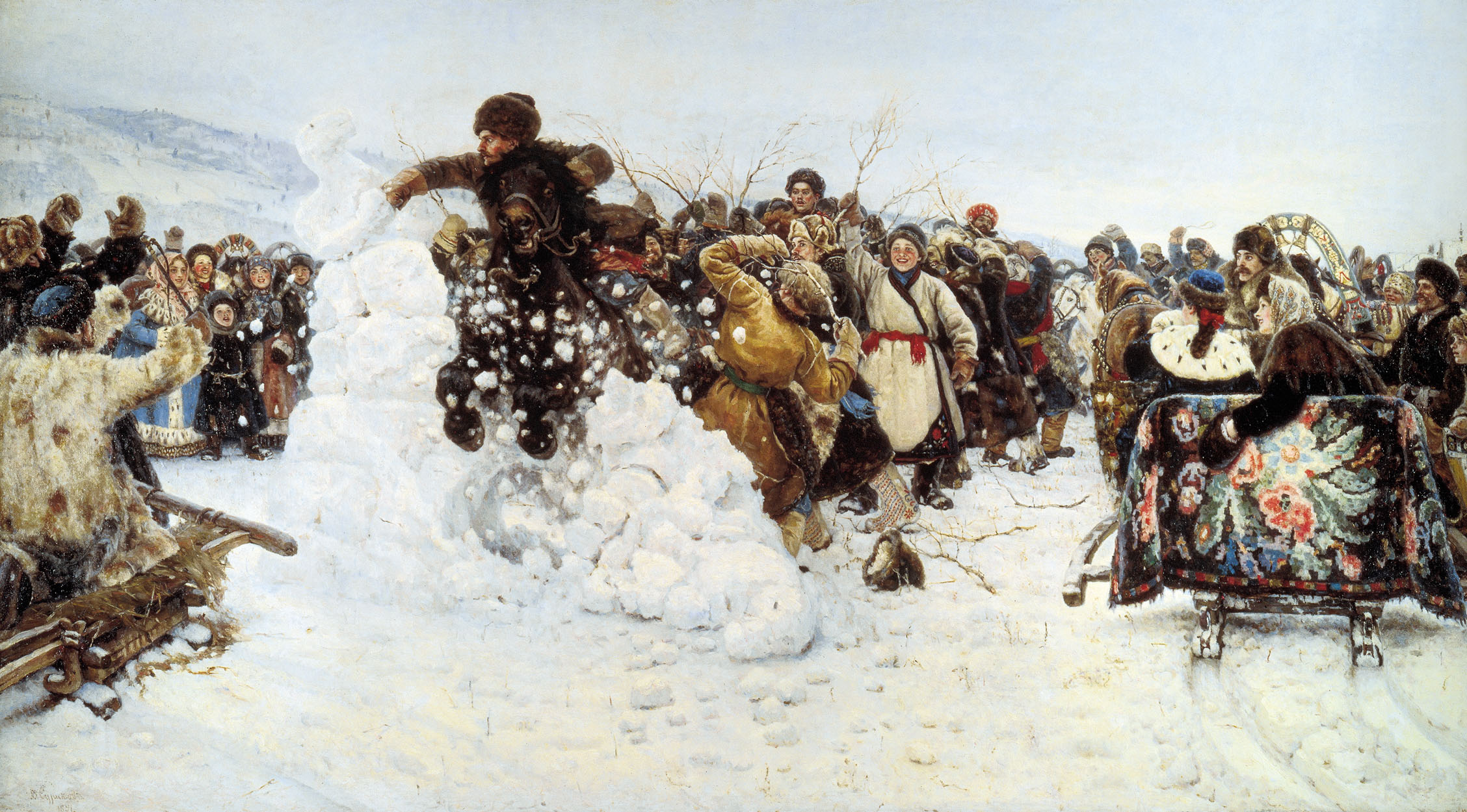 The painting portrays an amusing game typically played on the last day of Shrovetide. A small town would be built from snow and ice. One group would guard the town while the other attacked.